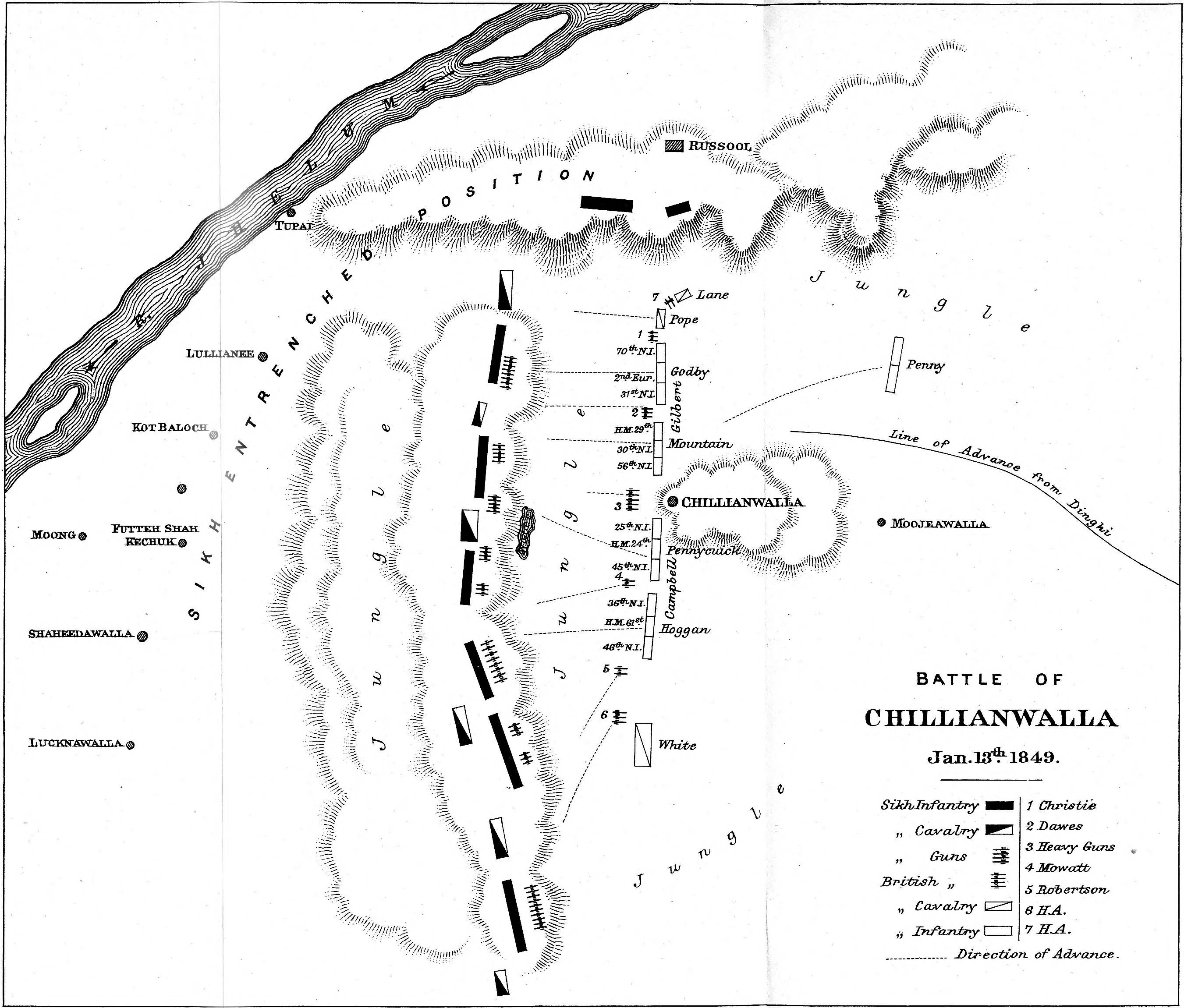 Battle of Chillianwalla, 13 January 1849